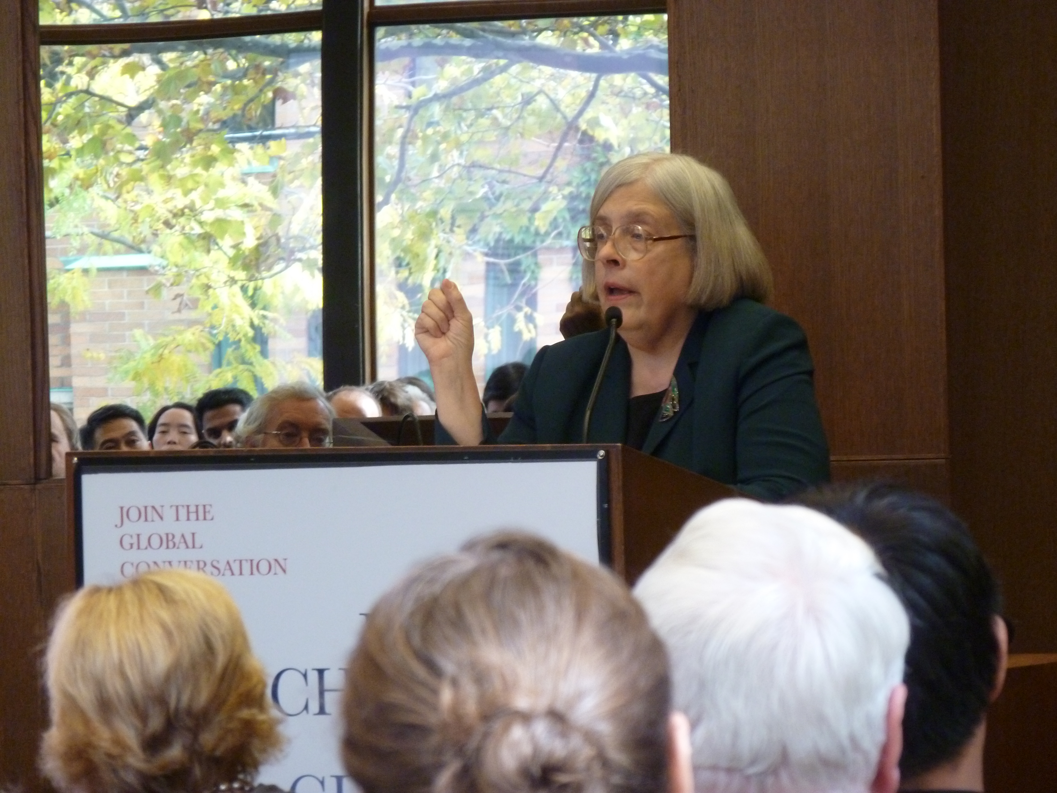 Professor Theda Skocpol from Harvard University delivers her lecture, titled, “Obama, the Tea Party, and the Future of American Politics” at the Munk School of Global Affairs, University of Toronto.